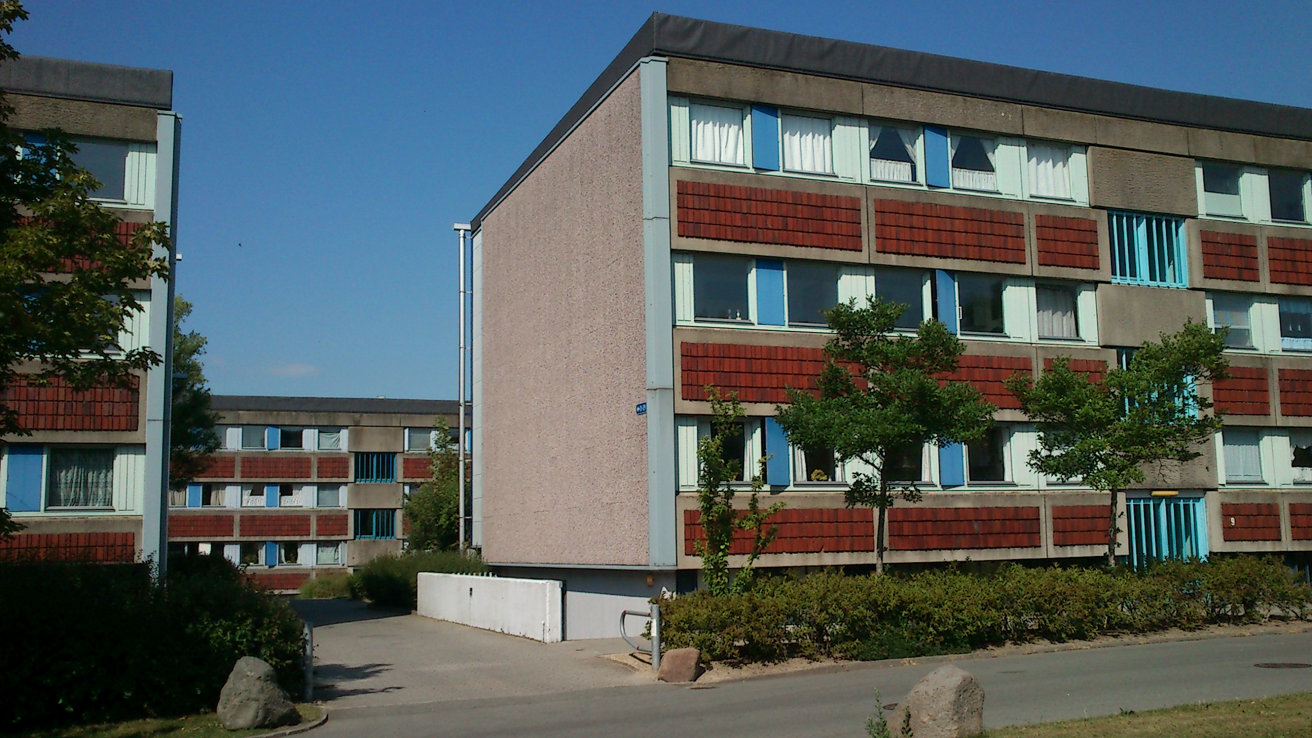 Trigeparken